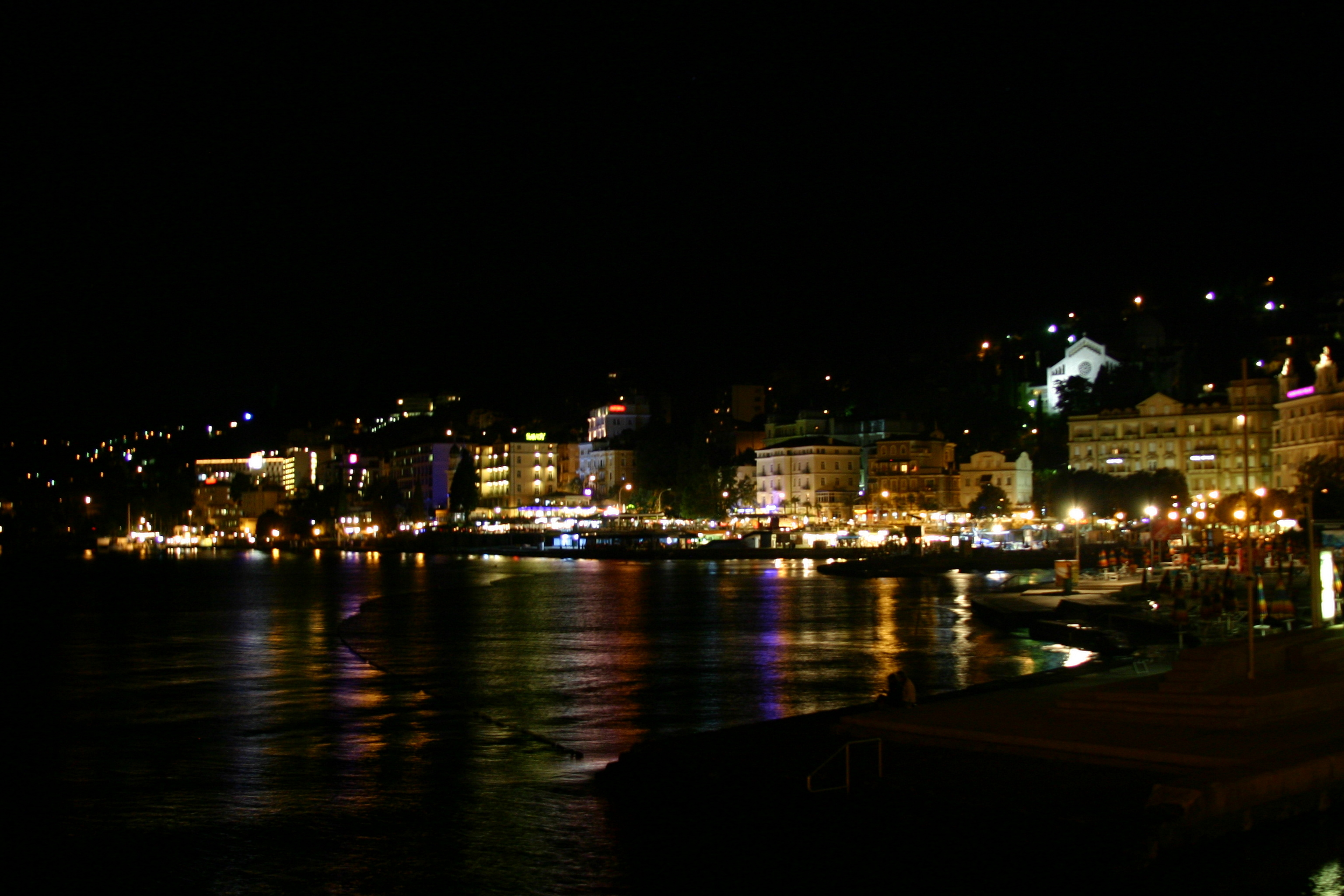 The croatian city of Opatija in the night. I took this picture in the beginning of September 2006.